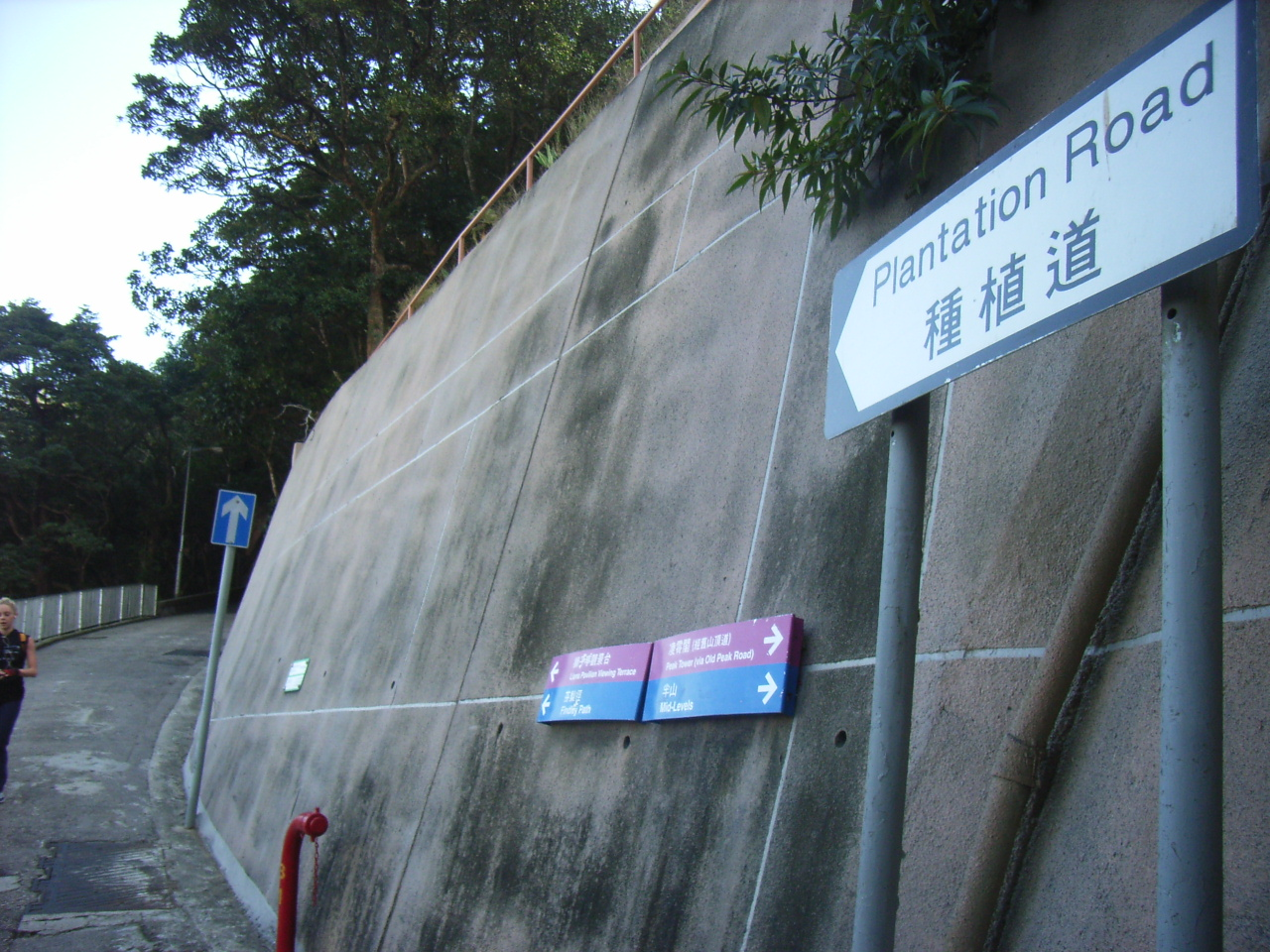 Plantation Road near the conjunction with 白加道 Parker Road Peak Tram Station, Victoria Peak, Hong Kong Photographer and author is ParkerStarS.